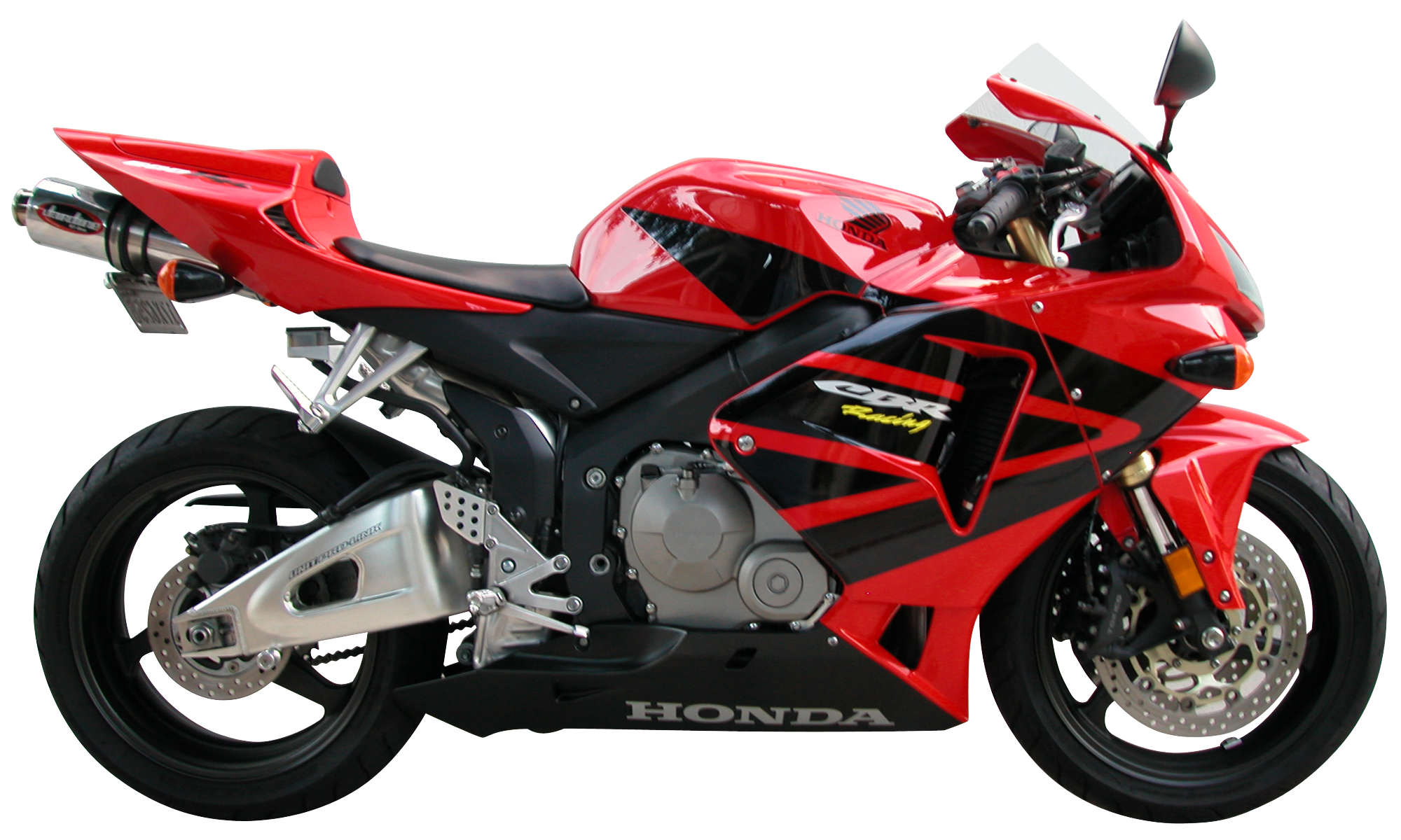 Profile view of a 2006 Honda CBR600RR in red/white. Camera used was a Nikon Coolpix 5000.